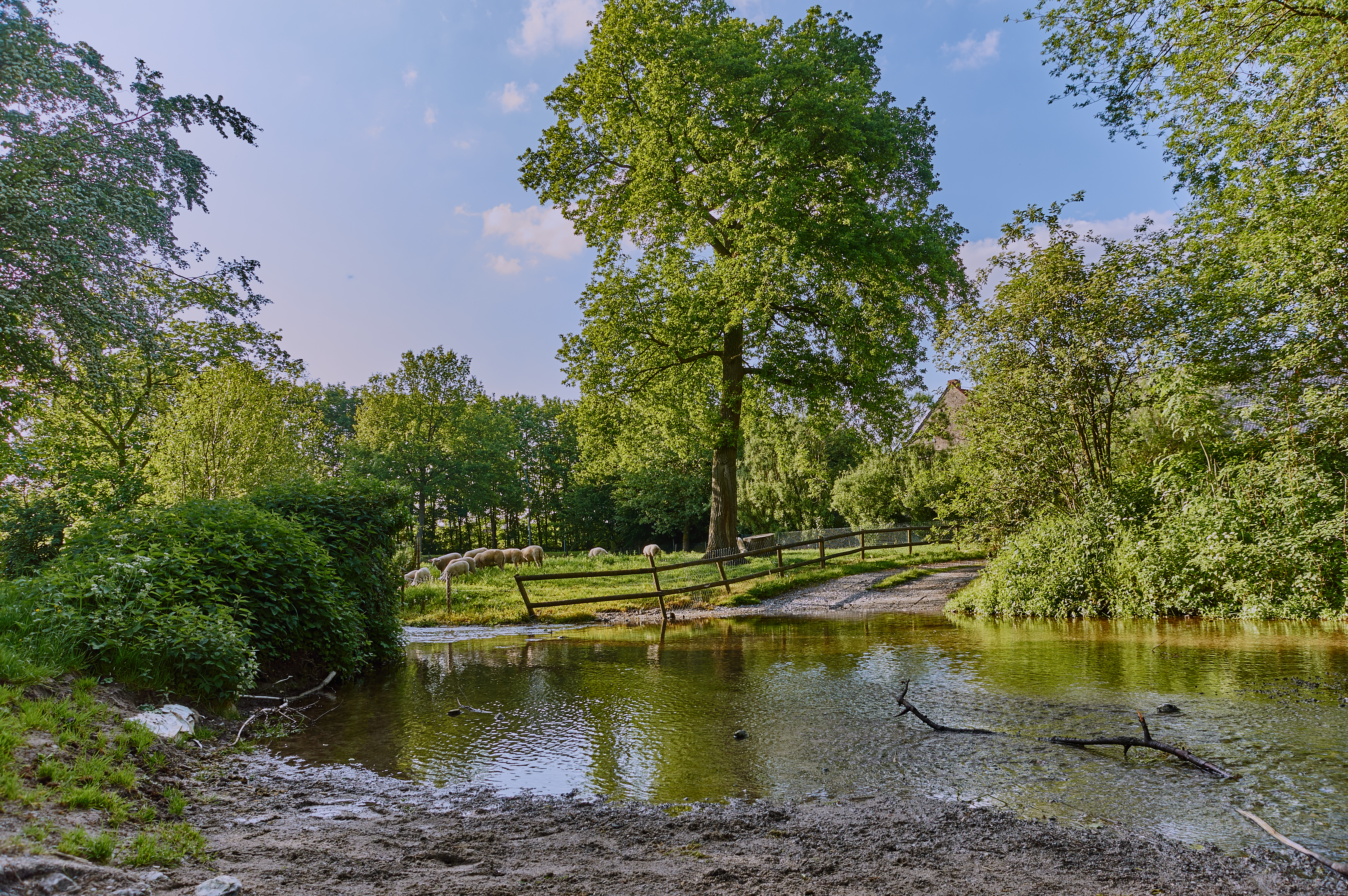 Historic ford over BerkelBerkel-river in Billerbeck, North Rhine-Westphalia, Germany.